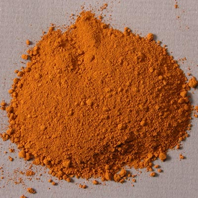 Burnt sienna pigment From an email dated Wed, 31 Mar 2004 21:25:29 -0800: "You can use the images of pigments as long as you give full credit to Iconofile and the web site. Iconofile is the copyright holder of the pigment images on the web site." George O'Hanlon Executive Director Iconofile, Inc. A Public Benefit Non-Profit Corporation 4955 Everglade Ct Santa Rosa, CA 95409-2701 Tel: 707-539-8215 Fax: 408-516-9442 See also the description for the illustration of raw sienna, which has more details.